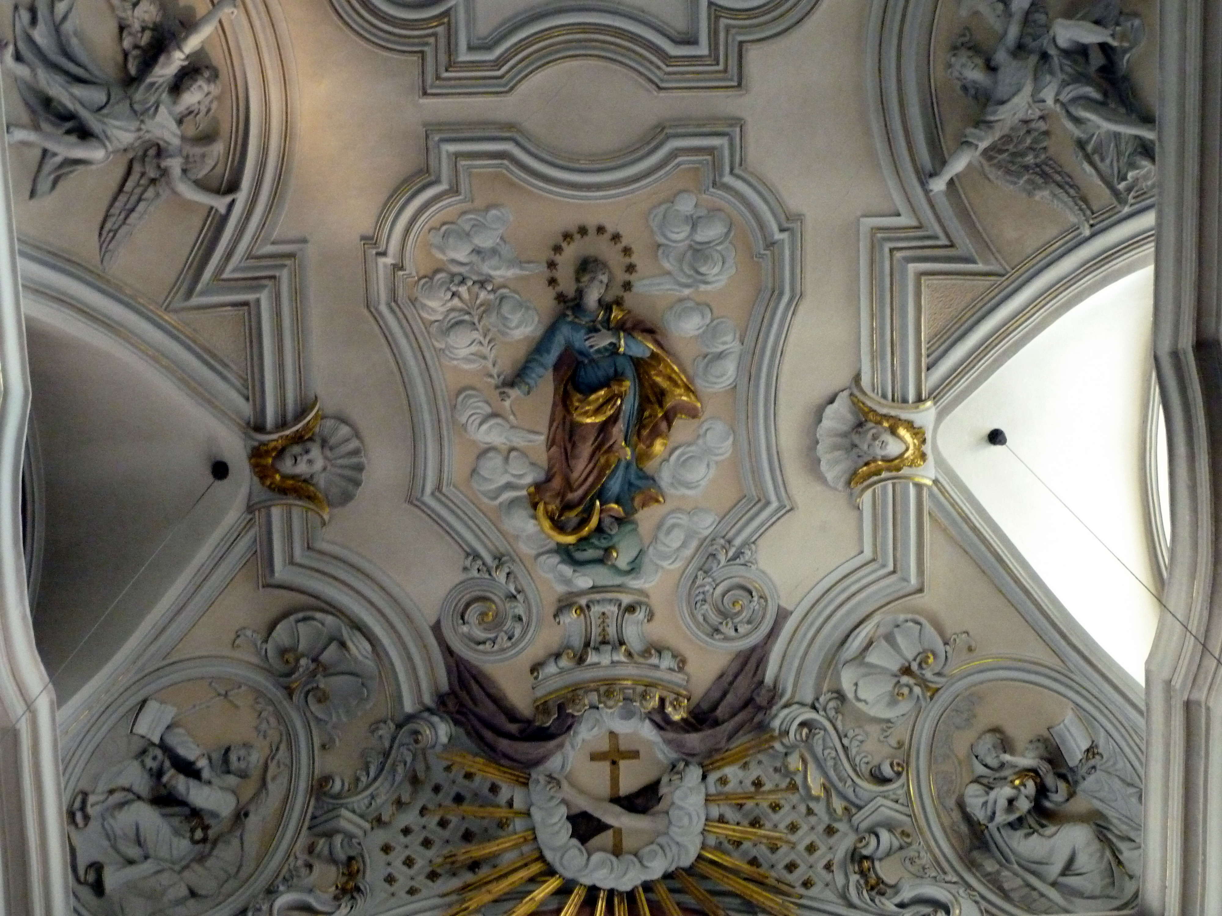 St. Sebastian (Limburg an der Lahn); Madonna on the crescent, detail of the vault